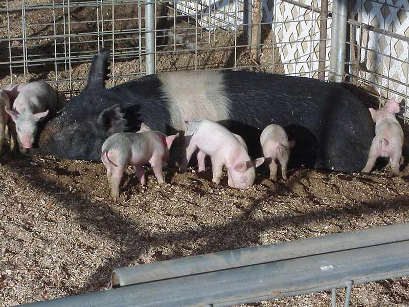 Little Piggies - 2000-06-19 : After last weeks rant about PETA, I thought it was nice to find these small food units at the County Fair. These aren't quite ripe yet.